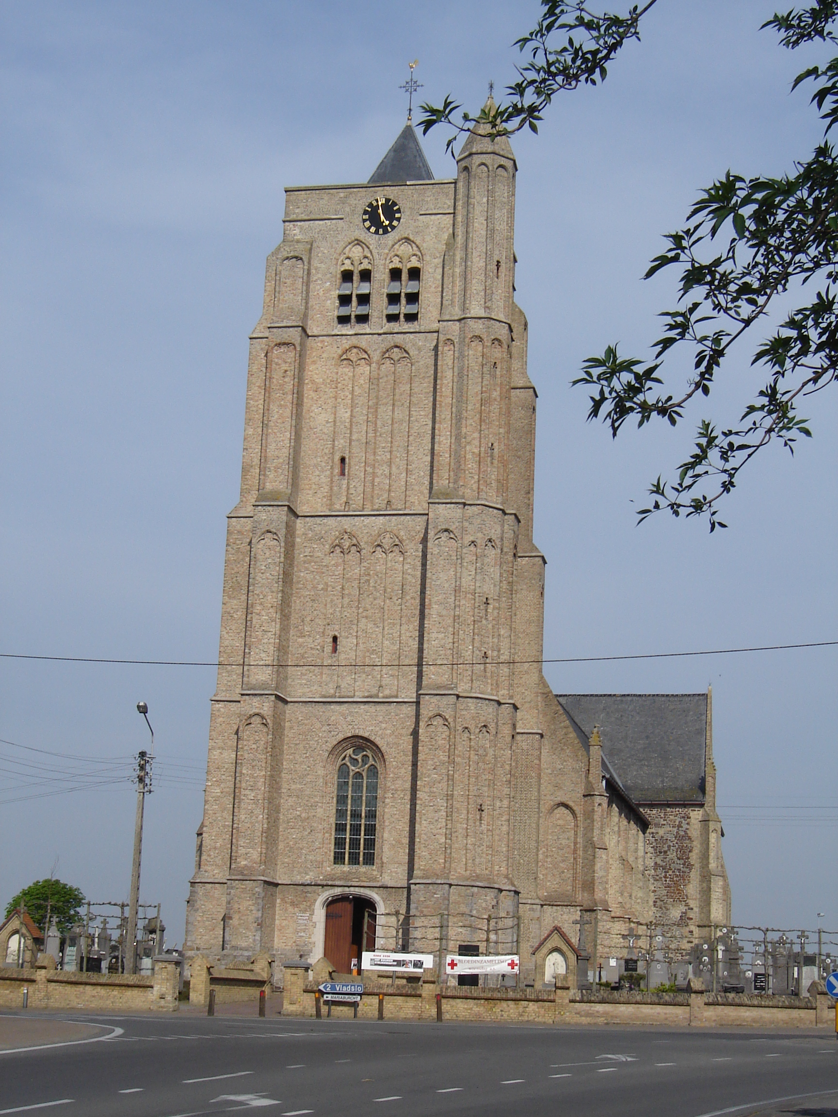 Church of Saint Peter in Esen. Esen, Diksmuide, West-Flanders, Belgium